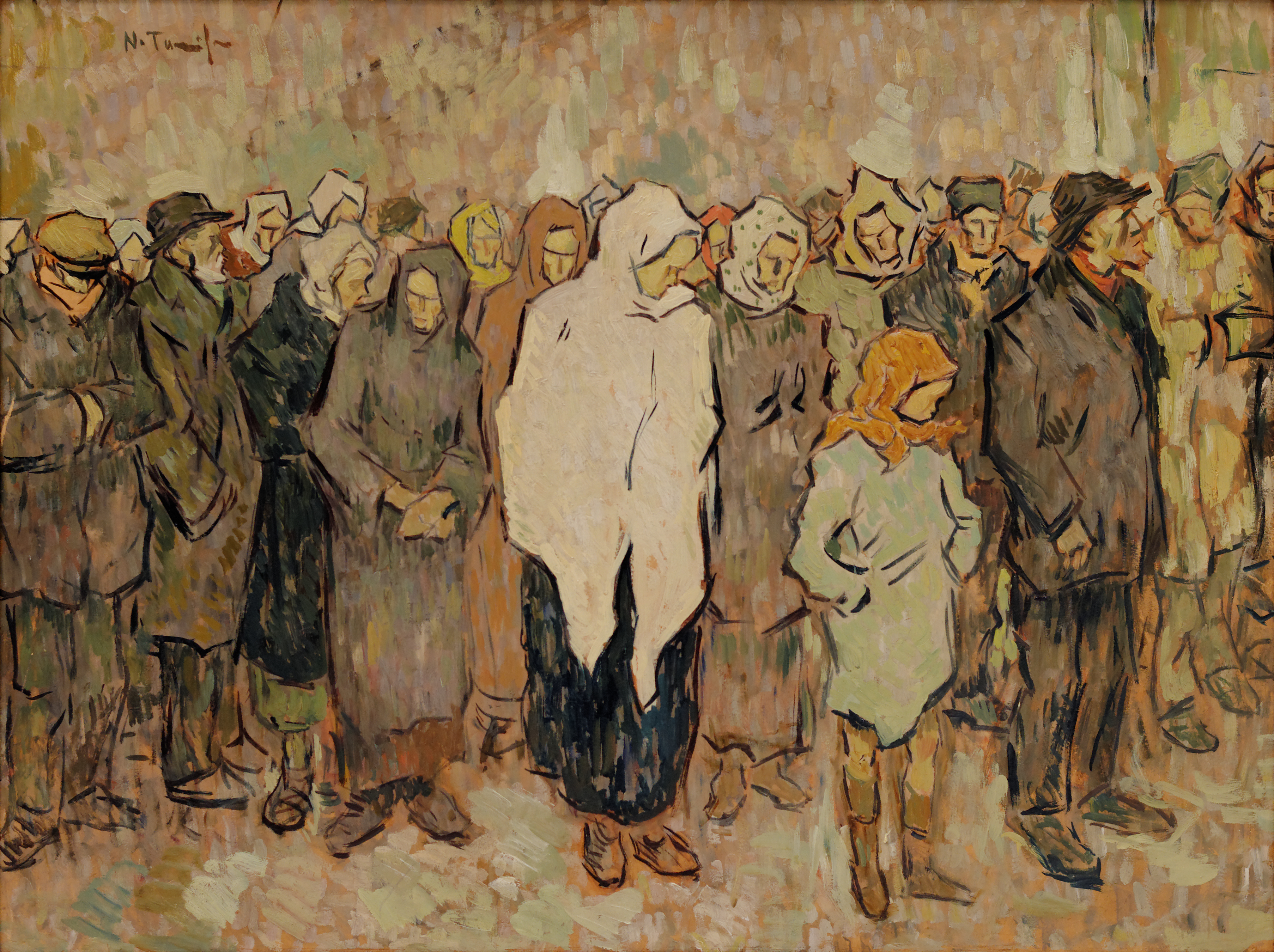 Bread Line, oil on canvas.